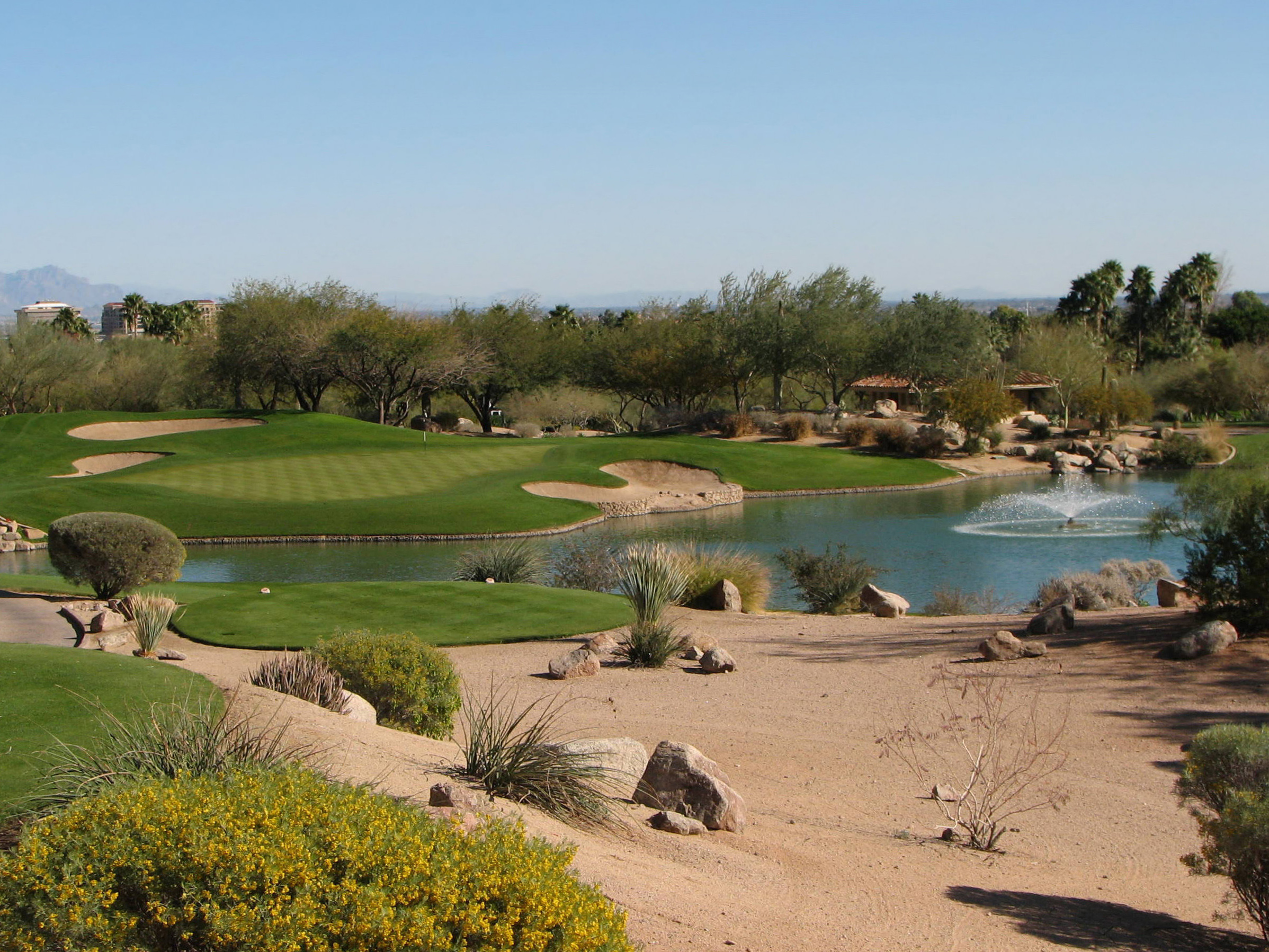 Hole #7, The Phoenician Golf Club, Canyon course, Scottsdale, Arizona, USA